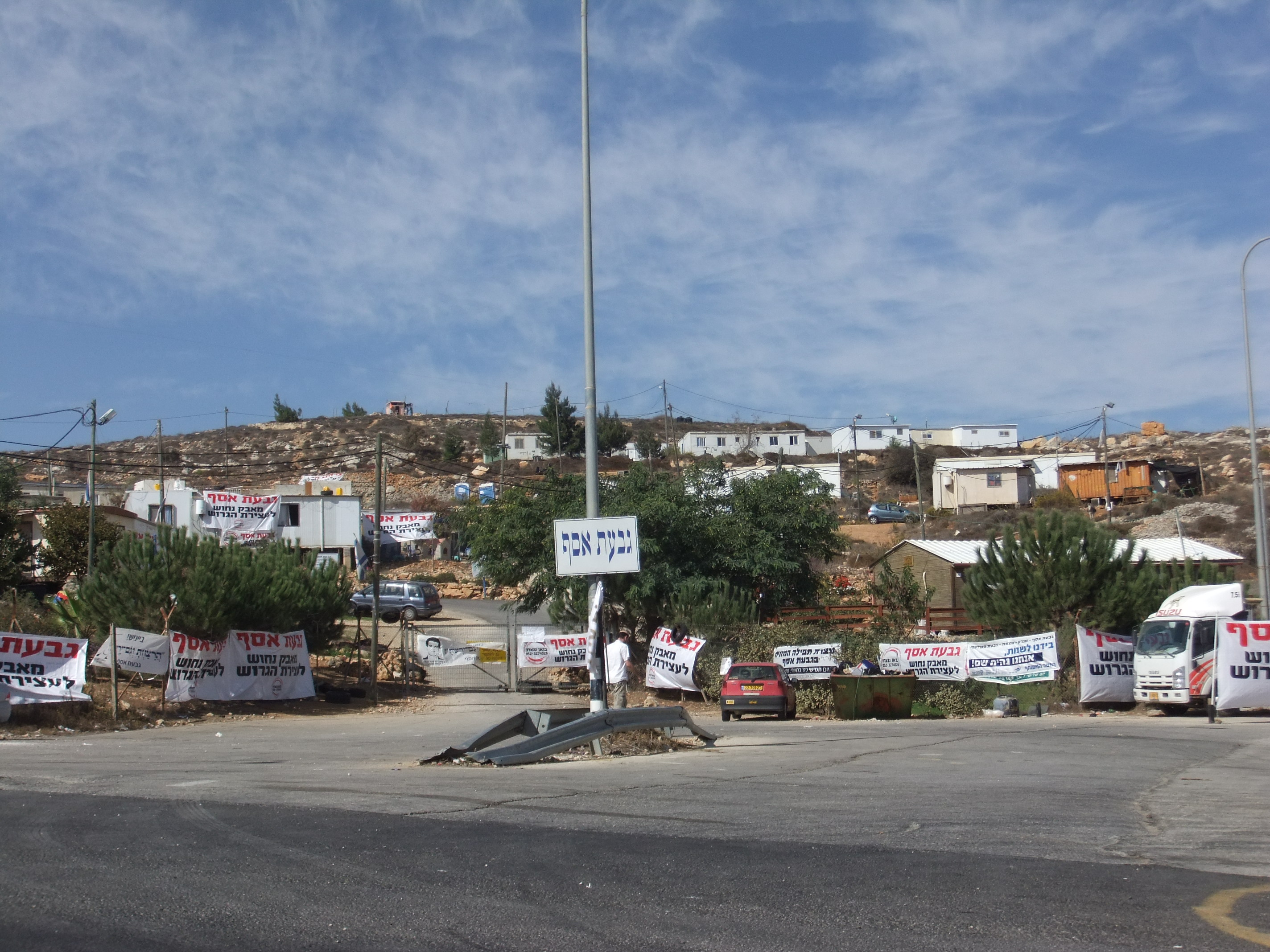 Givat Assaf